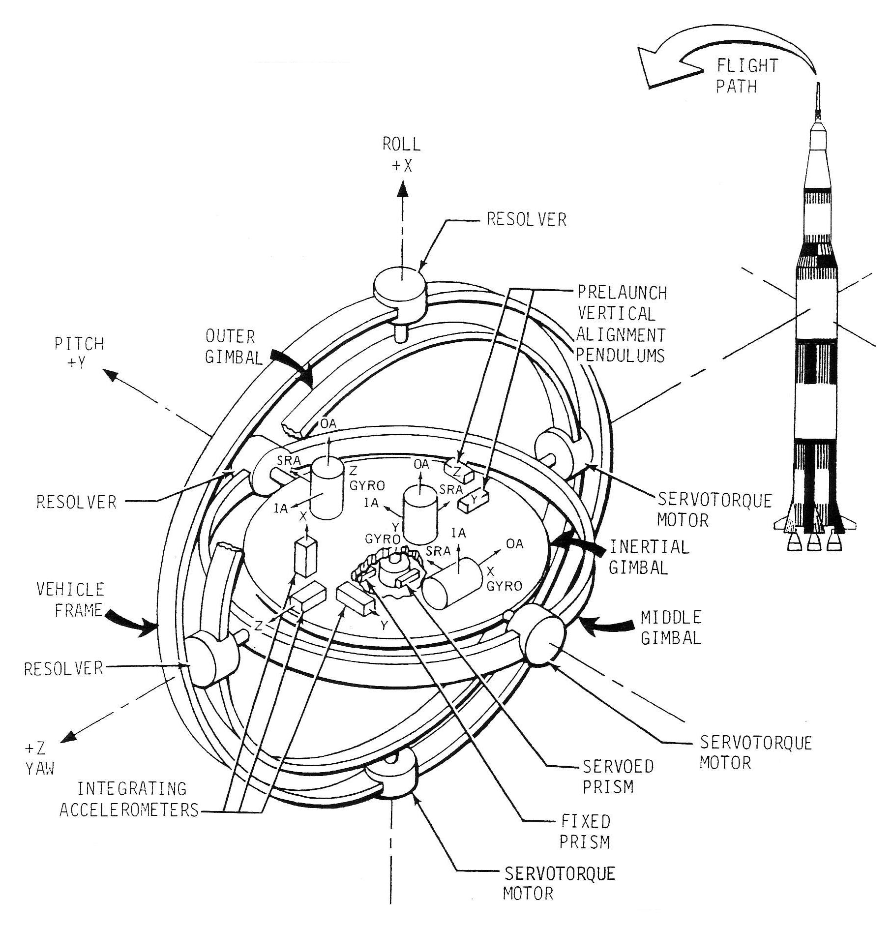 The ST-124-M3 has three gimbals, of which the outermost is attached to the Instrument Unit and the innermost is fixed in inertial space. As the vehicle rolls, pitches and yaws during flight and orbit the inner gimbal remains oriented toward the same point in space at which it was pointed at the moment of launch. The inner gimbal carries accelerometers which measure vehicle accelerations in this fixed, inertial coordinate system. Three gyros also attached to the inner gimbal sense any rotations of this gimbal and send signals to feedback circuits which drive servotorque motors that counter the rotations by nulling the gyro outputs. The resolvers measure the angles of the three gimbals, providing the attitude data of the vehicle to the navigation system. The prisms are part of the system for aligning the inner gimbal just before launch.